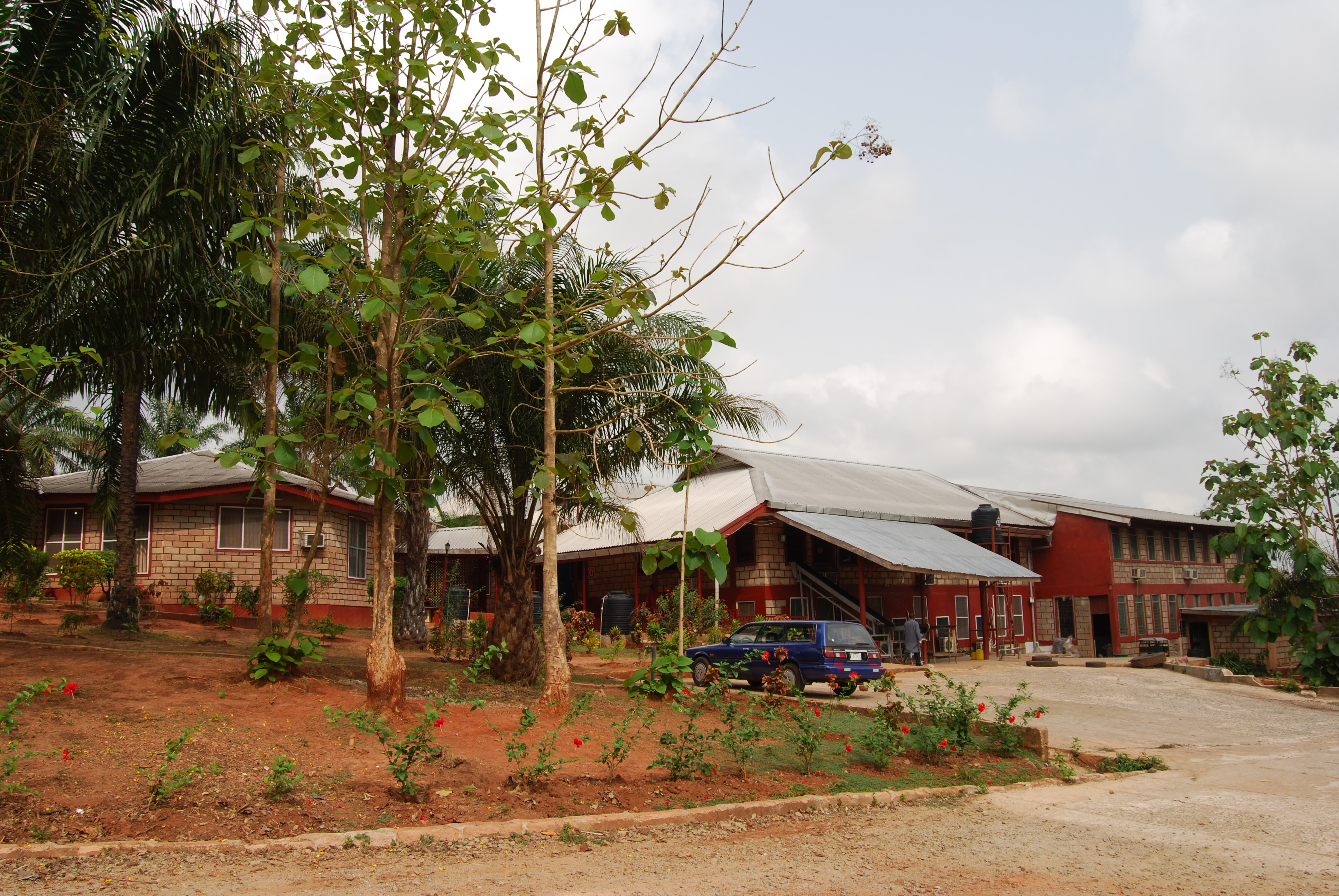 Paxherbal Center View from side outside 2